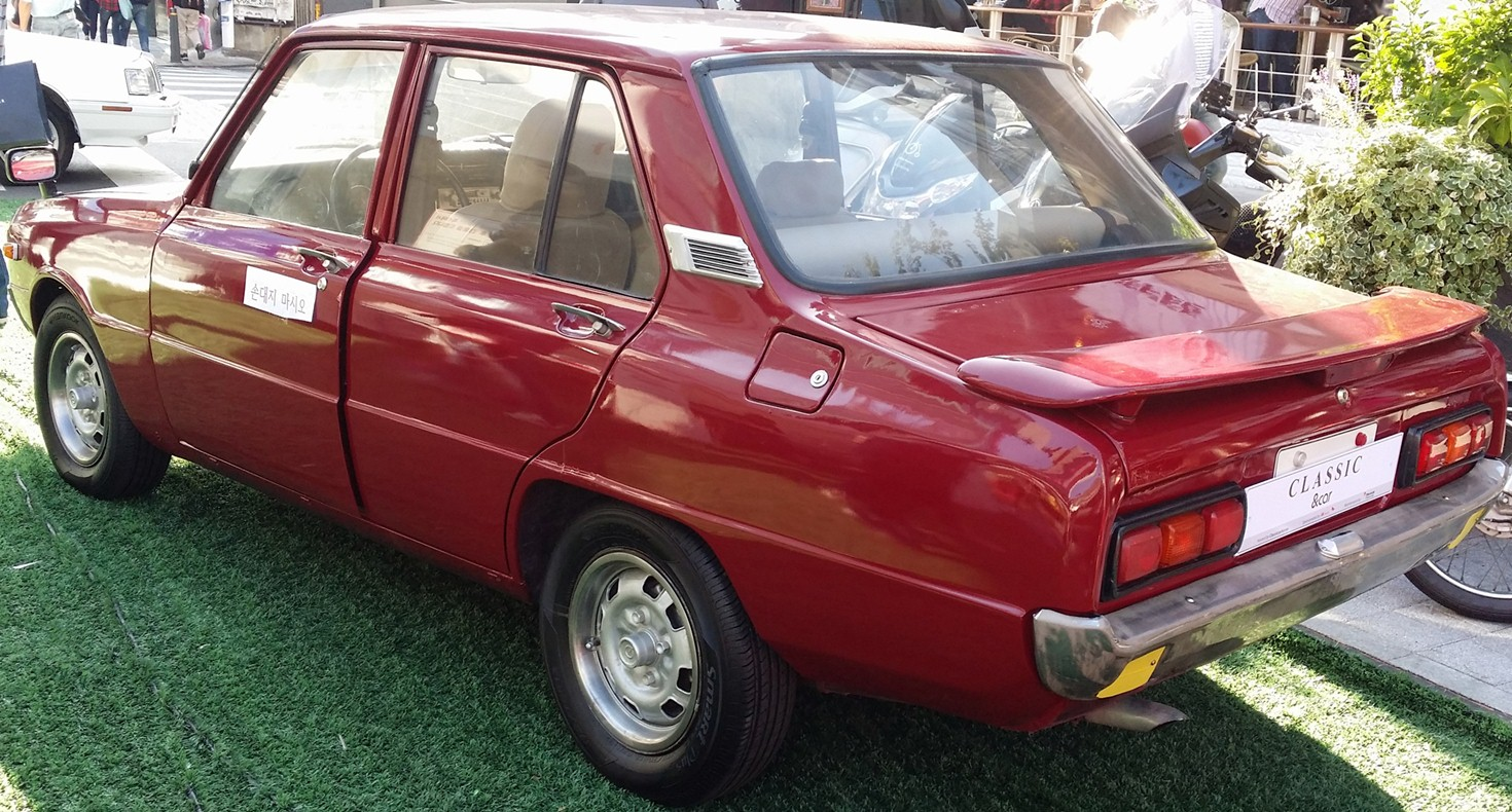 Kia Brisa